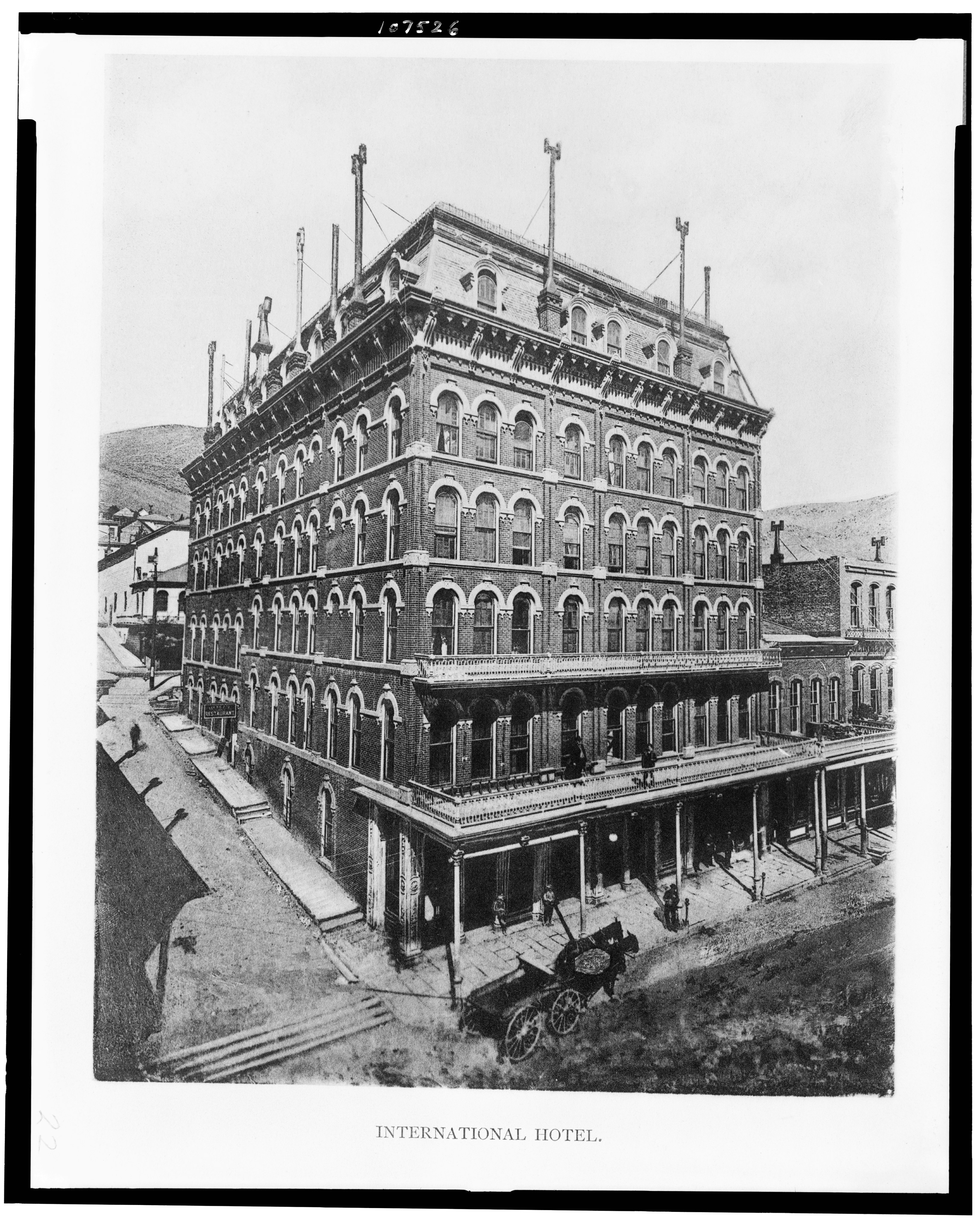 Title: International Hotel Abstract/medium: 1 photomechanical print.